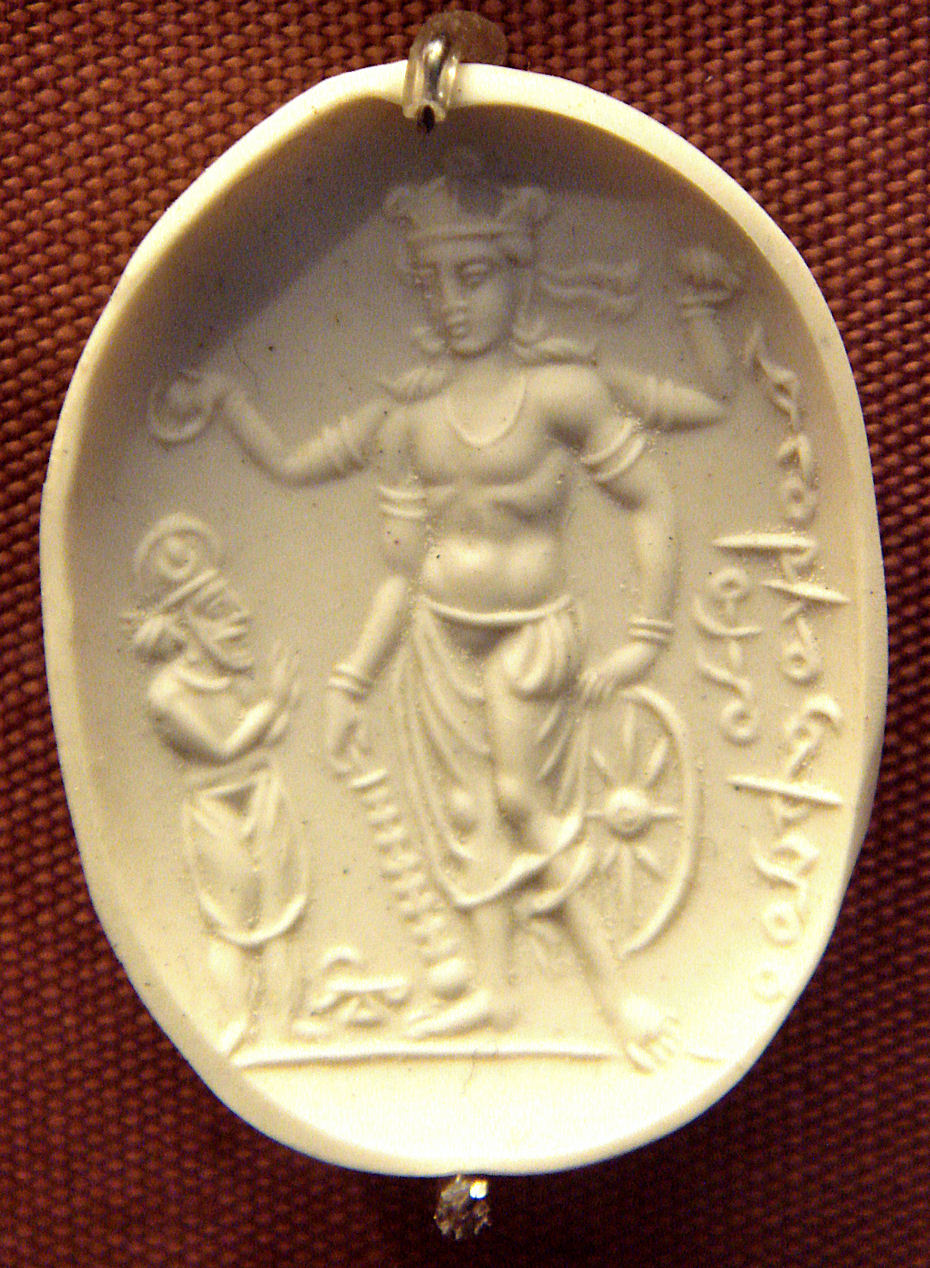 Cast of sardonyx seal representing Vishnu blessing a worshiper, Afghanistan or Pakistan, 4th-6th century CE. The inscription in cursive Bactrian reads: "Mihira, Vishnu and Shiva".[1] British Museum. Own work.